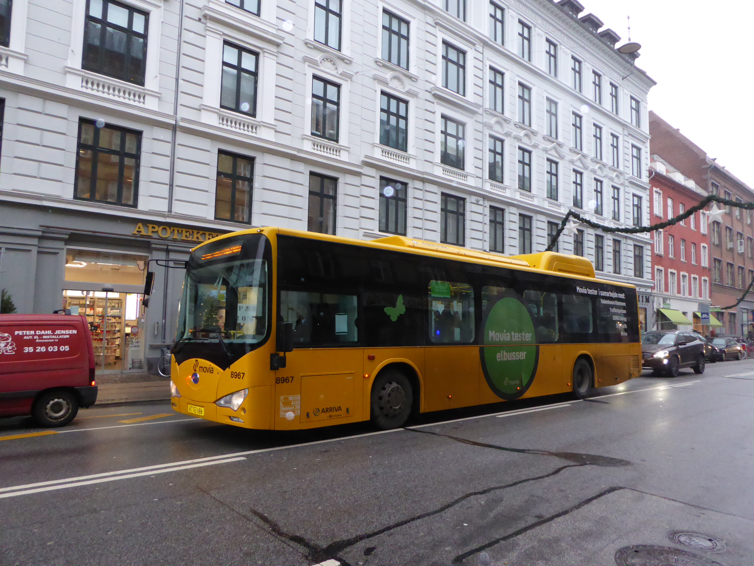 Electric bus as a test on Movia bus line 3A on Nordre Frihavnsgade in Østerbro in Copenhagen.